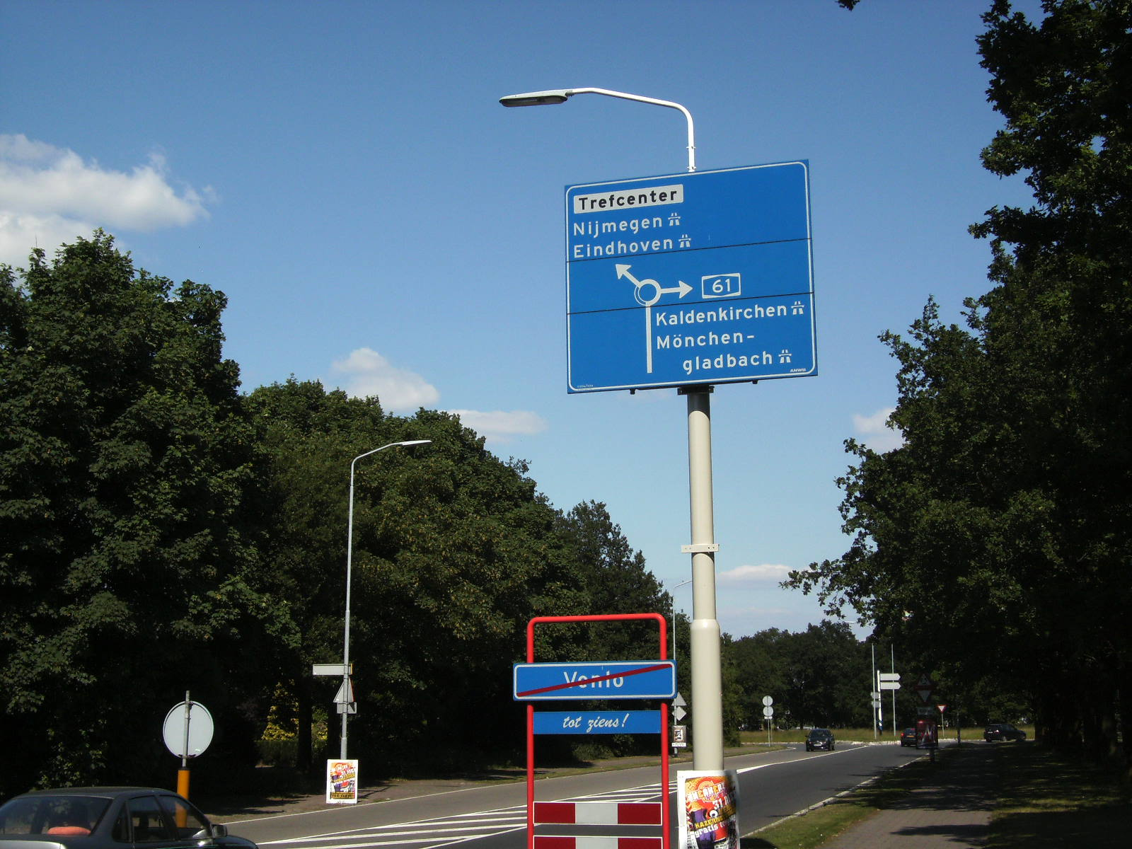 The beginning of the federal motorway A61 in Venlo before the border of the Netherlands and Germany